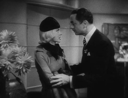 Frame from the public domain trailer for Warner Bros. 1934 film Fashions of 1934 showing Bette Davis and William Powell